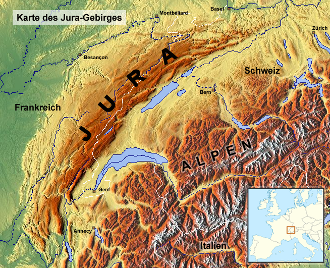 Topographic map of Jura mountains in Switzerland and France